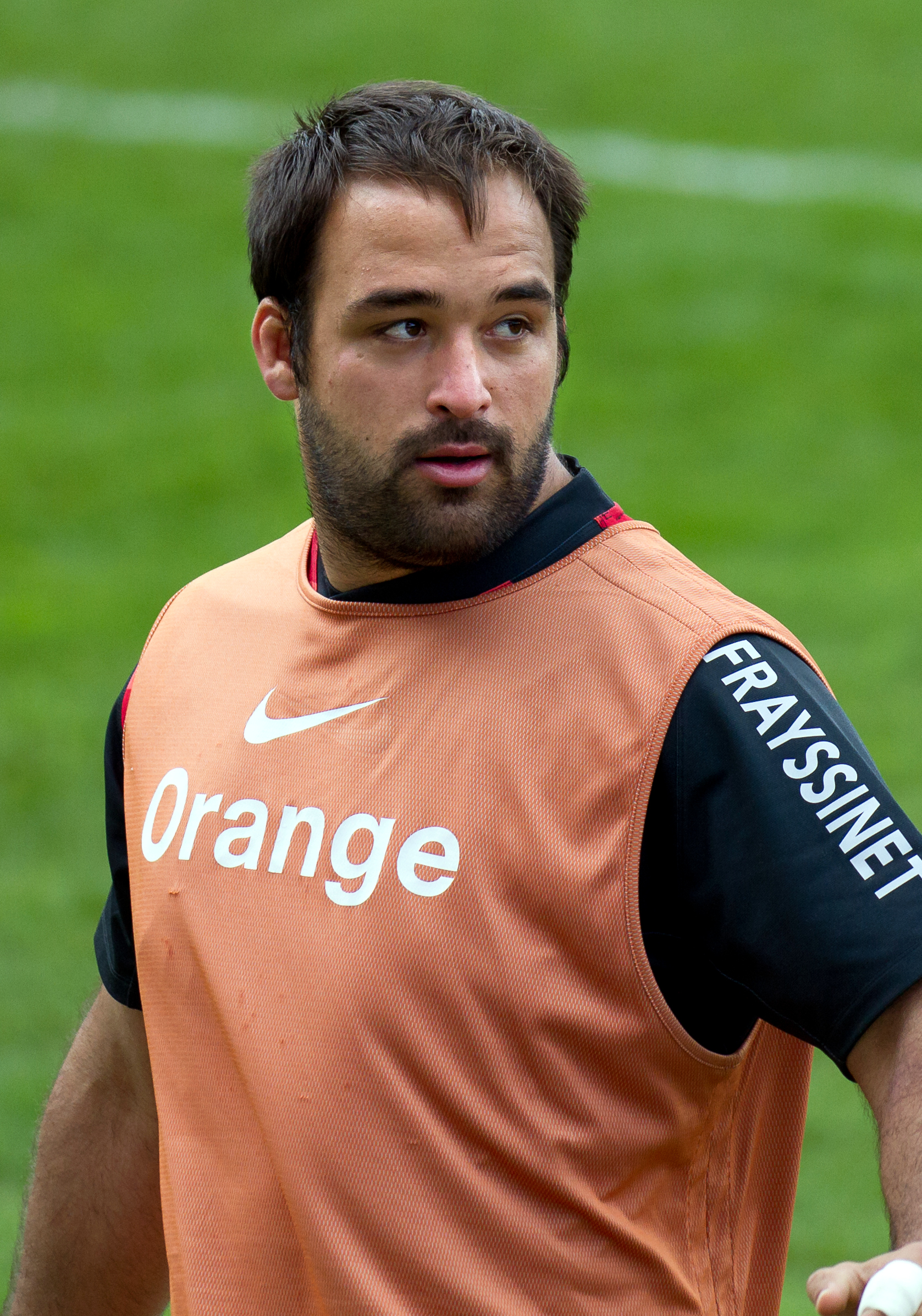 Top 14 — 21 April 2012, Stade Ernest-Wallon. Match between: Stade toulousain — CA Brive